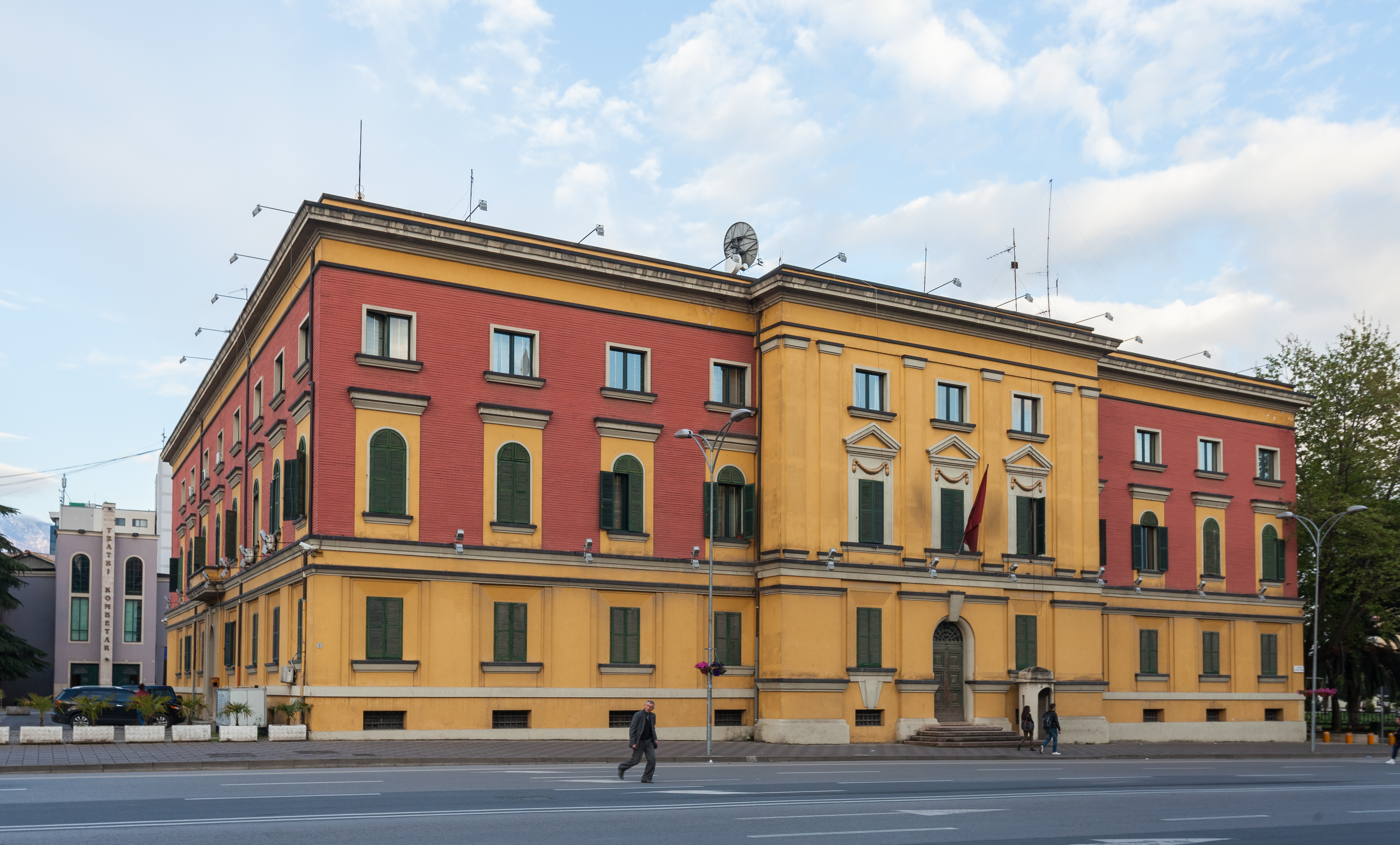 Ministry of Internal Affairs, Tirana, Albania